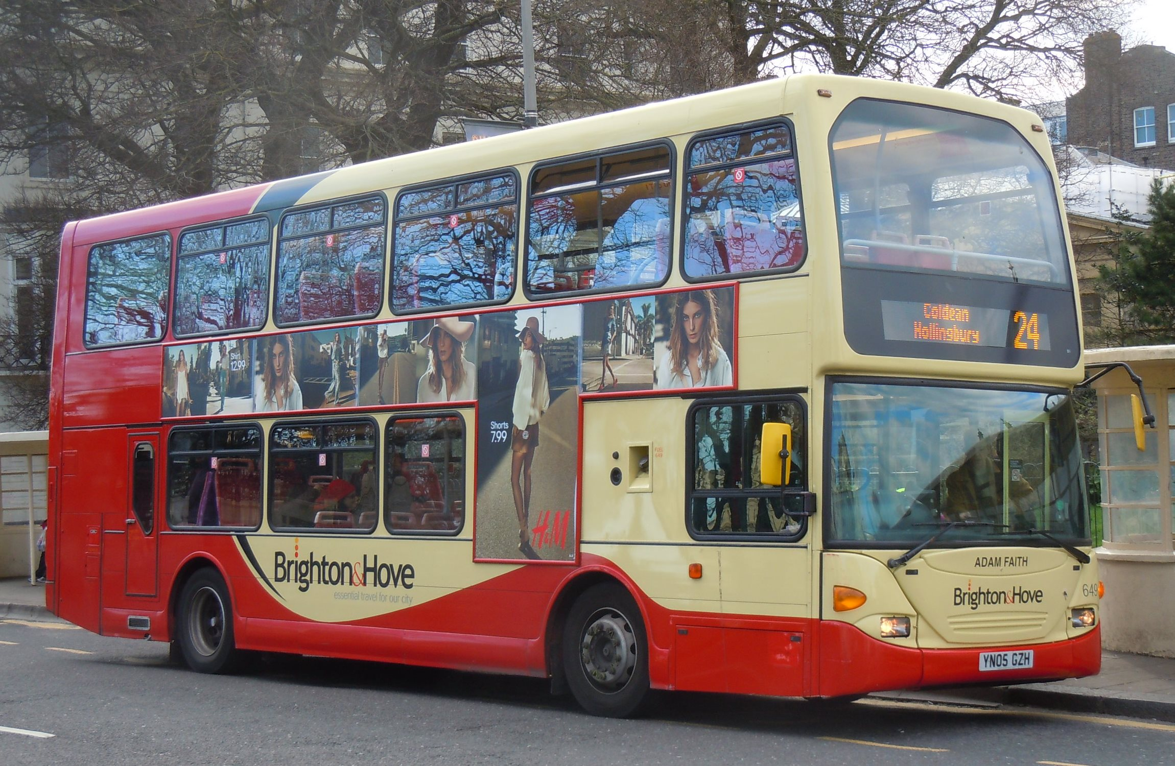 Brighton & Hove 649 Adam Faith (YN05 GZH) at Old Steine, Brighton, with a route 24 bus to Hollingbury via Coldean. (This is a cropped and PD-licenced version of a photo I have already uploaded to my Flickr account: the same photo was also uploaded to Commons as shown below)